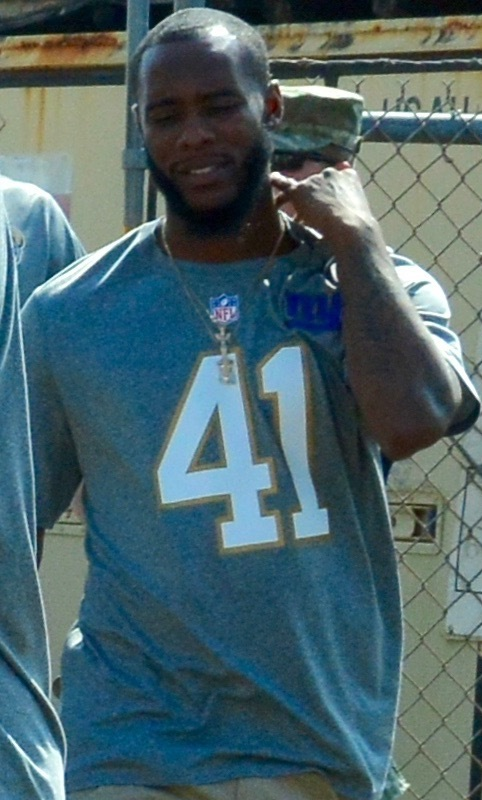 Dominique Rodgers-Cromartie enters the 2016 Pro Bowl Draft show at Wheeler Army Airfield, Hawaii, Jan. 27.